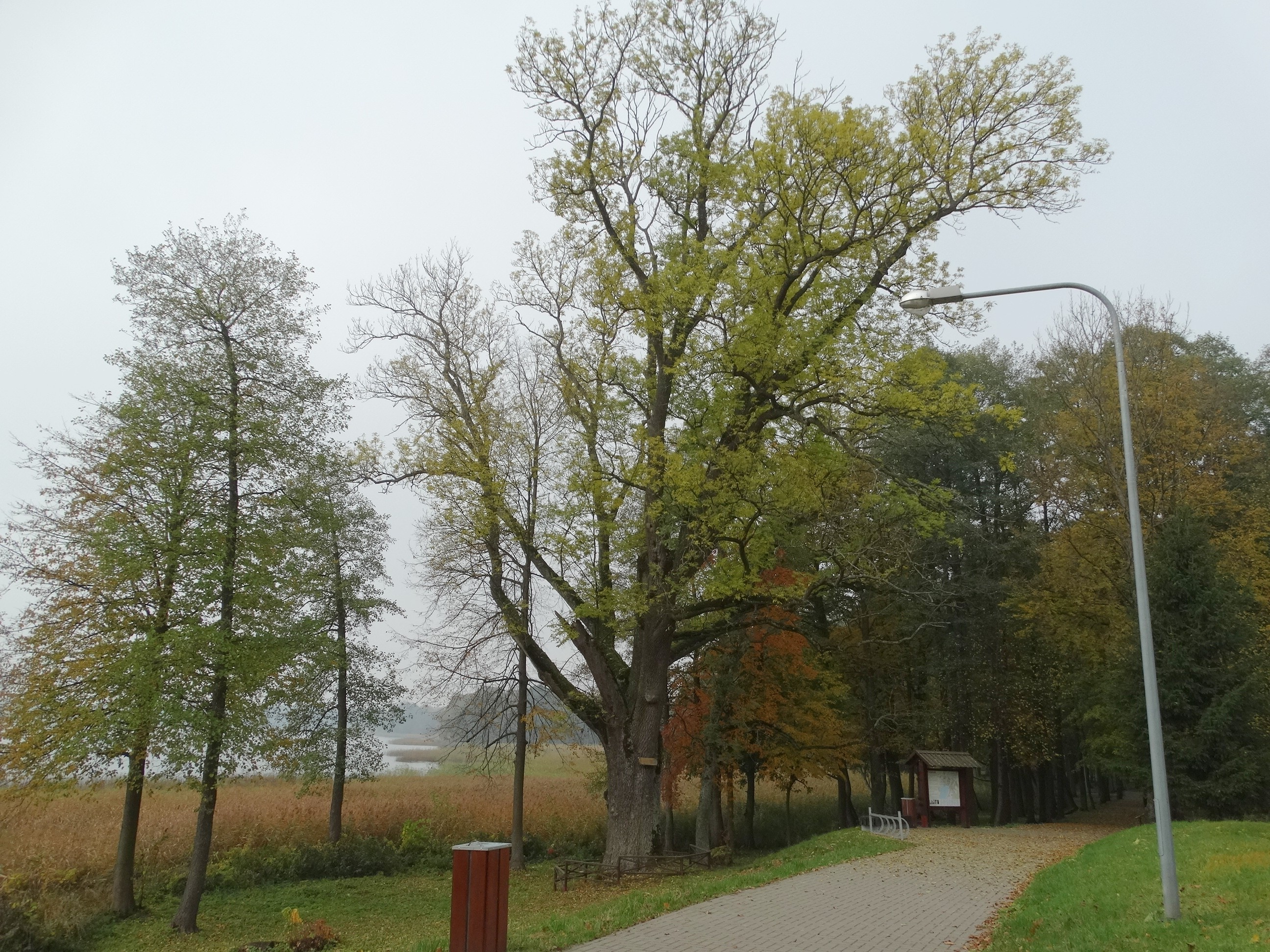 White poplar, Veisiejai, Lazdijai District, Lithuania